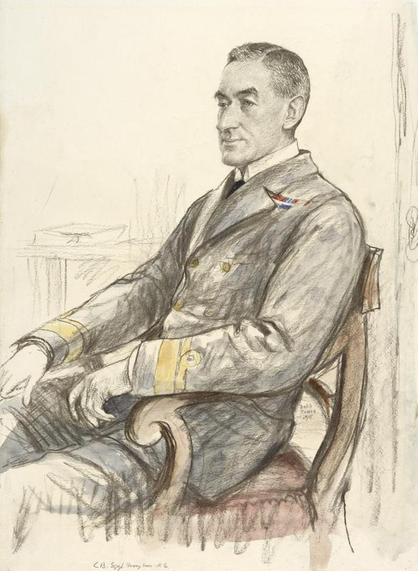 Rear-admiral the Hon Edward Stafford Fitzherbert Cb image: a three quarter length portrait of Rear Admiral Edward Fitzherbert in Royal Navy uniform and sitting in a chair. He is shown side on and has his arms resting on the arms of the chair.